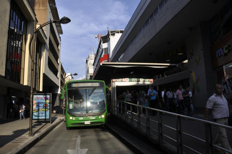 Pereira-mall